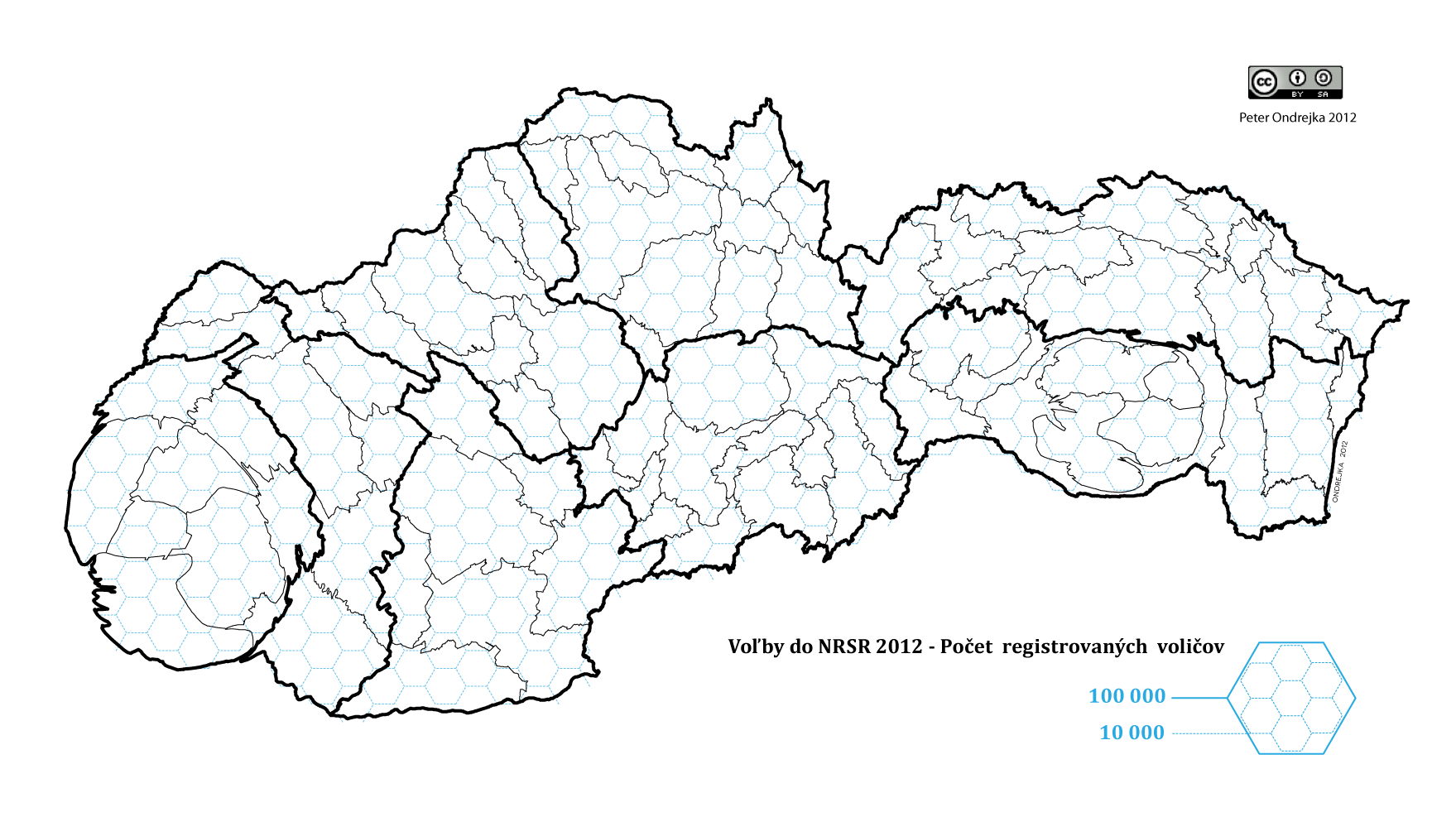 Cartogram (Gastner-Newman algorithm) depicting number of registered voters (in 2012 Slovak parliamentary elections) in districts of Slovakia.